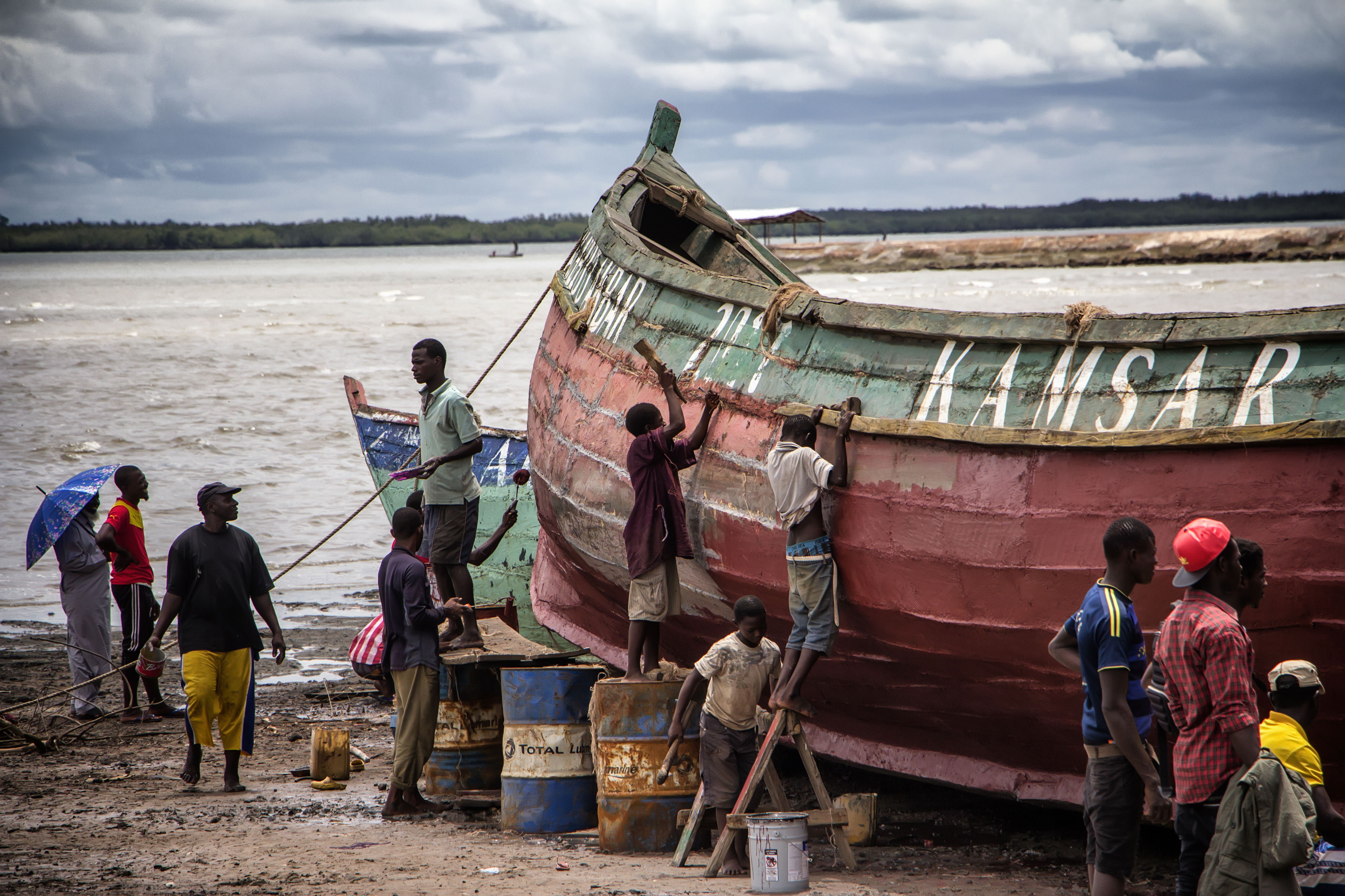 fabrique de pirogue This is an image of "African people at work" from Guinea